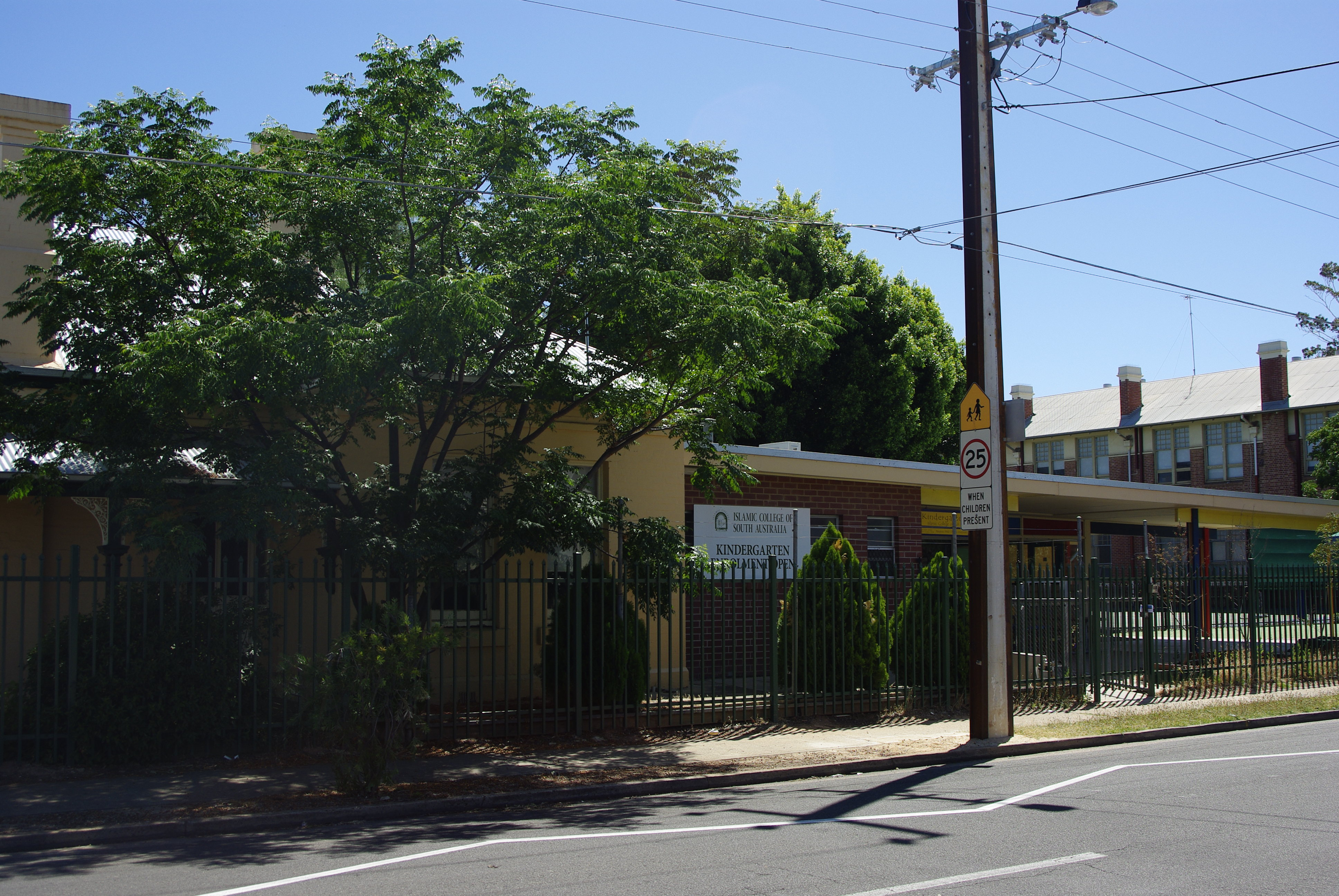 Islamic College of South Australia north frontage